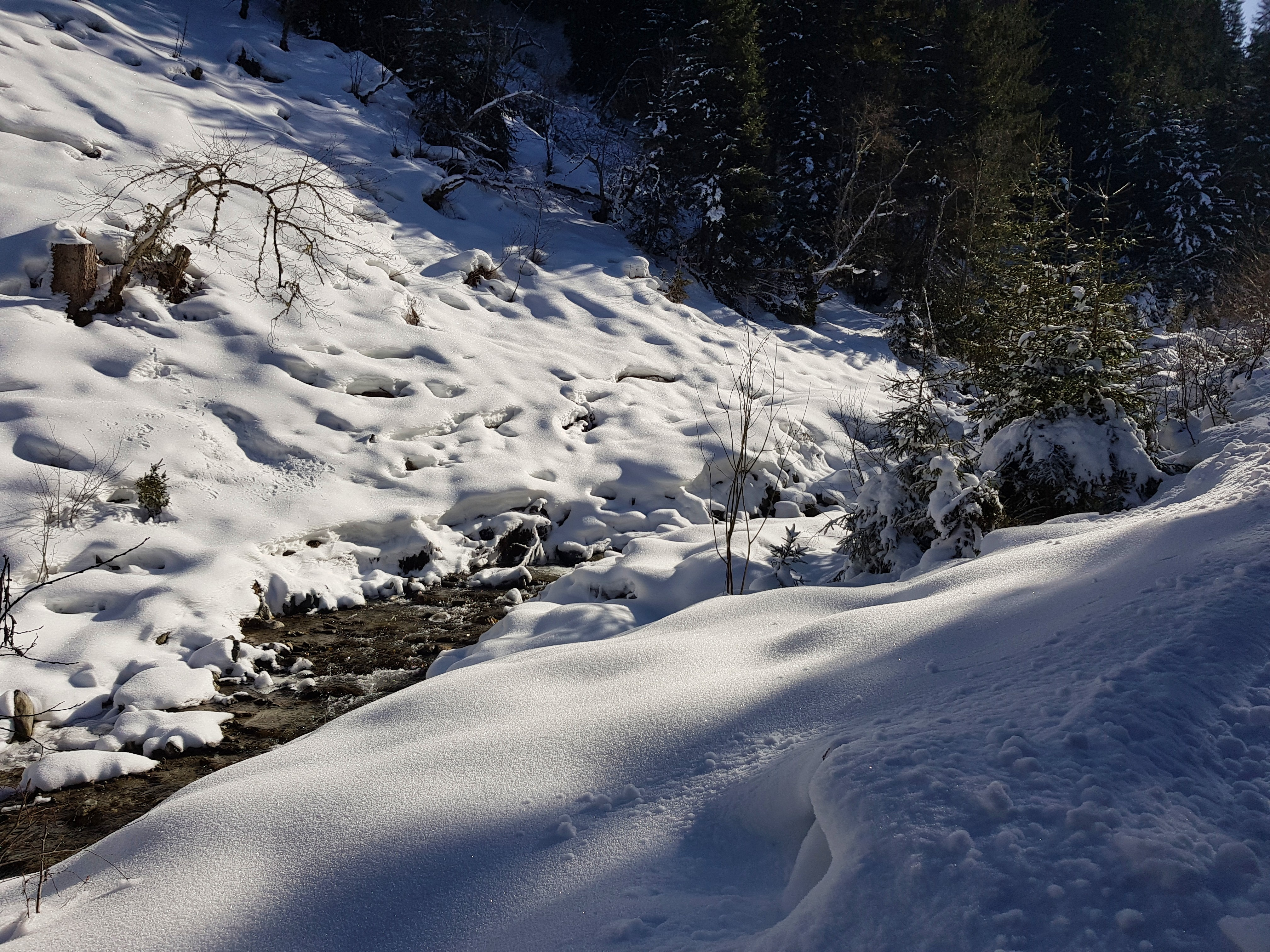 Axamer Bach im Axamer Tal